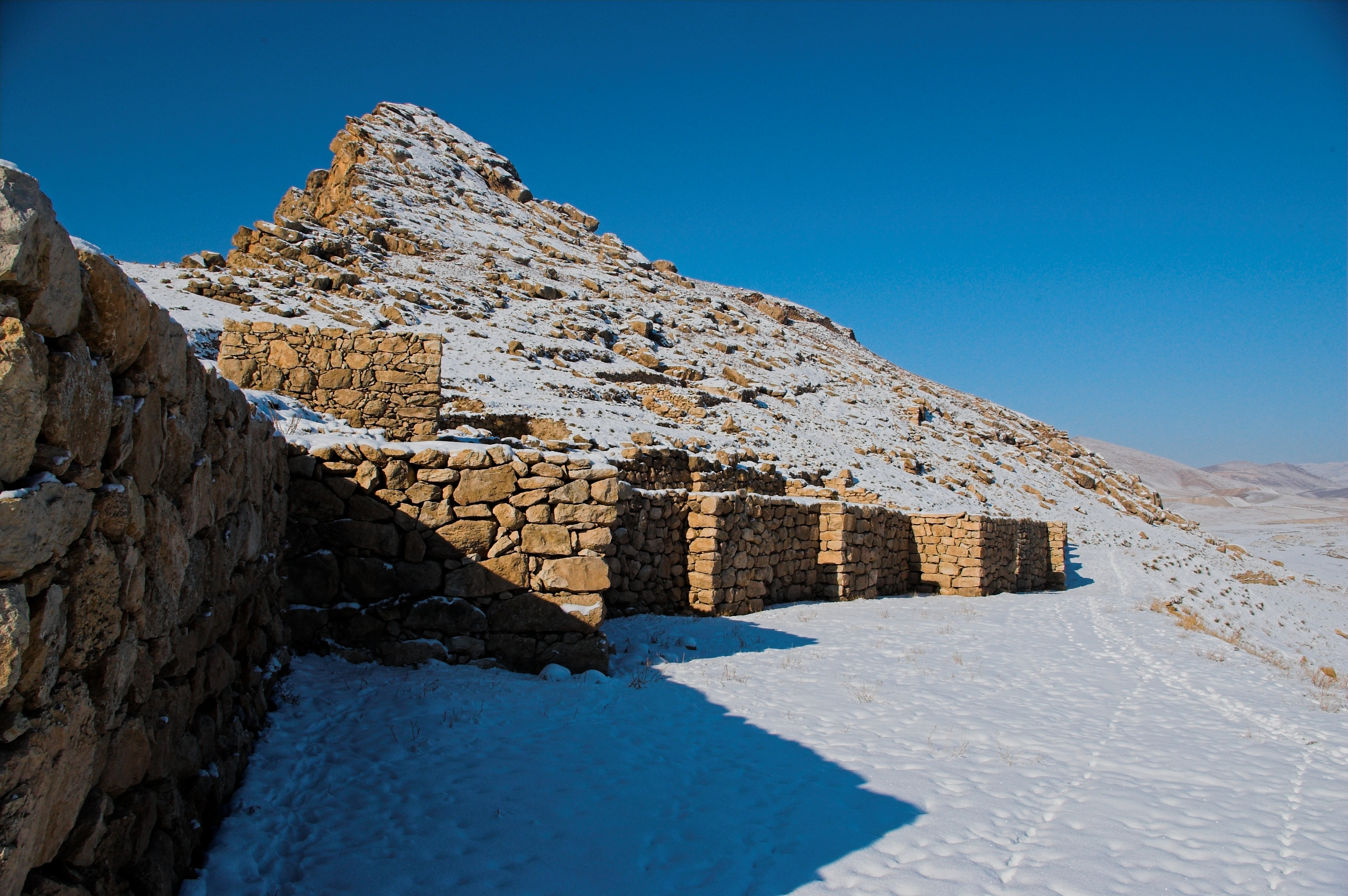 Bastam (Rusa-i Uru Tur in elamite) is one of the principal urartian fortresses. It's the second biggest one after Tushpa. The site was populated from the third mill. BC to seventh century BC.